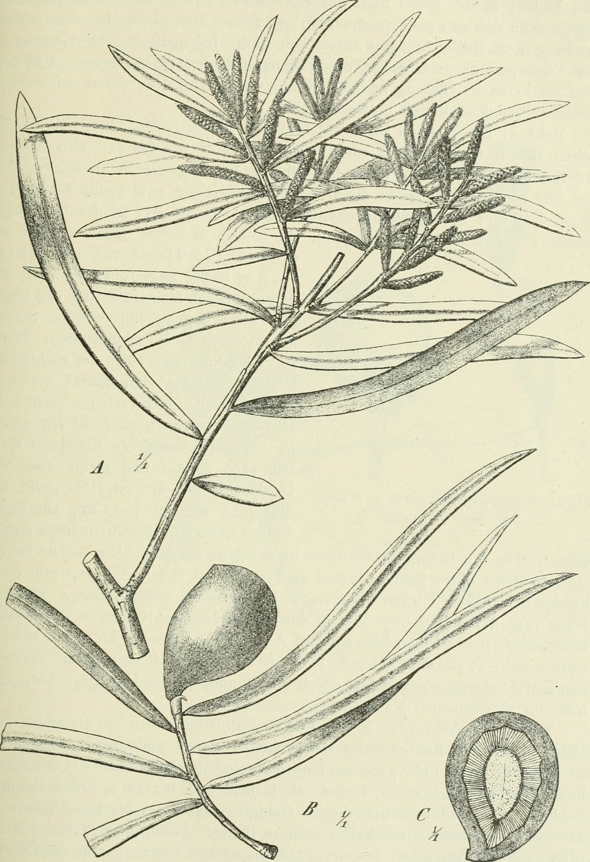 Title: Die Pflanzenwelt Afrikas, insbesondere seiner tropischen Gebiete : Grundzge der Pflanzenverbreitung im Afrika und die Charakterpflanzen Afrikas Year: 1910 (1910s) Authors: Engler, Adolf, 1844-1930 Subjects: Botany Publisher: Leipzig : W. Engelman Text Appearing Before Image: Coniferae. — Taxaceae. 85 Text Appearing After Image: Fig. 80. Podocarpiis Mannii Hook. f. A Zweig mit männlichen Blüten; ^ Fruchtzweig; C Längs- schnitt durch den Samen.